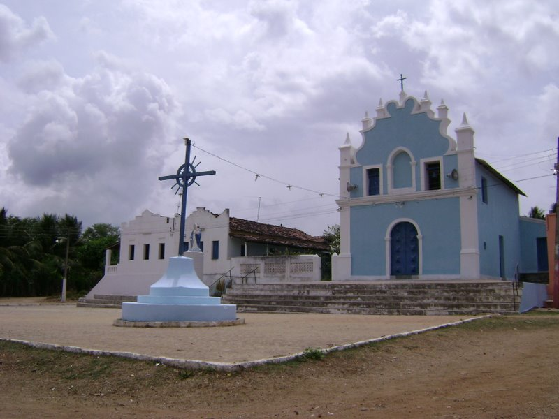 Catholic Churc